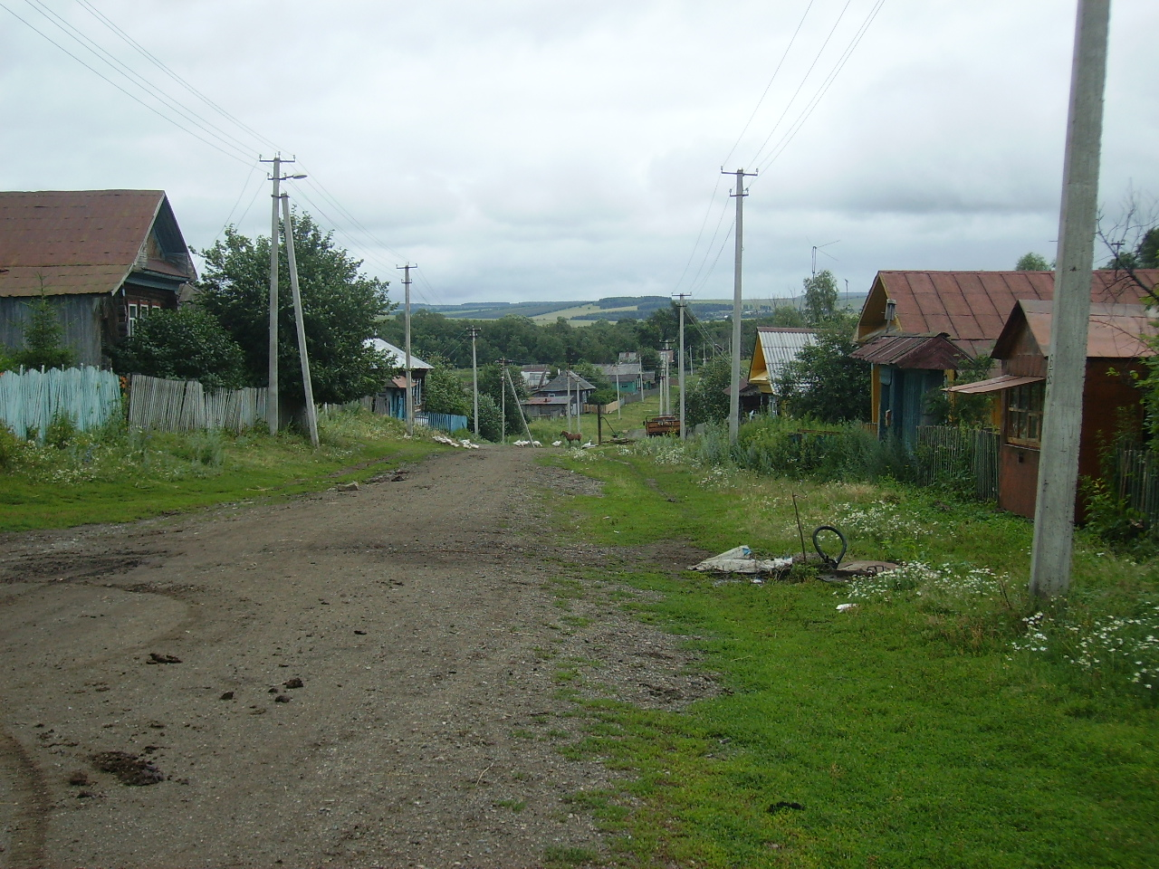 Village Munasovo Beryozovaya street, Bashkortostan - Russia.